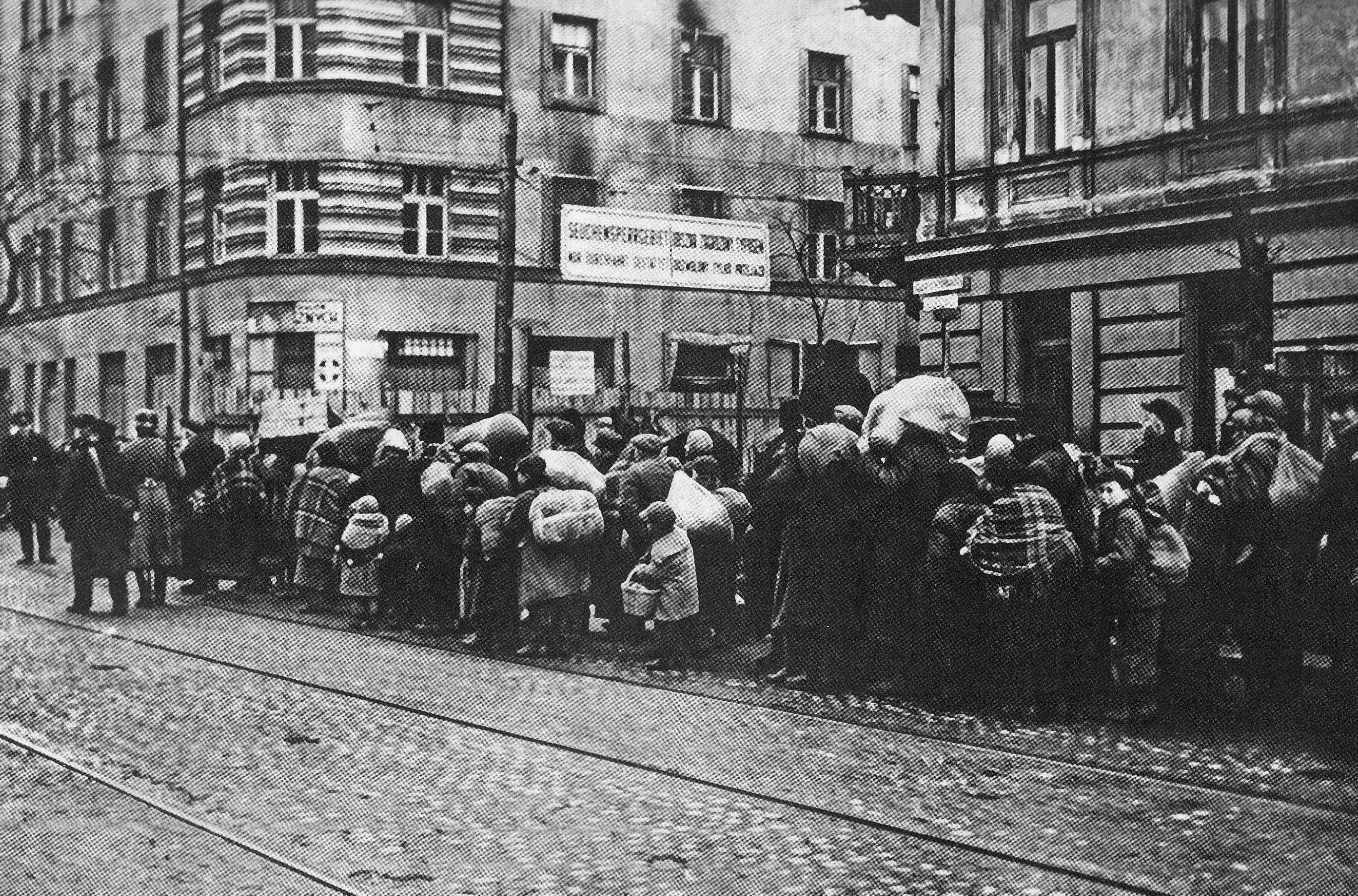 Forced resettlement of Jews from villages and small cities in Warsaw District to the Warsaw Ghetto. Picture taken near crossing of Żelazna and „Solidarności“ Streets (formerly Leszno Street)